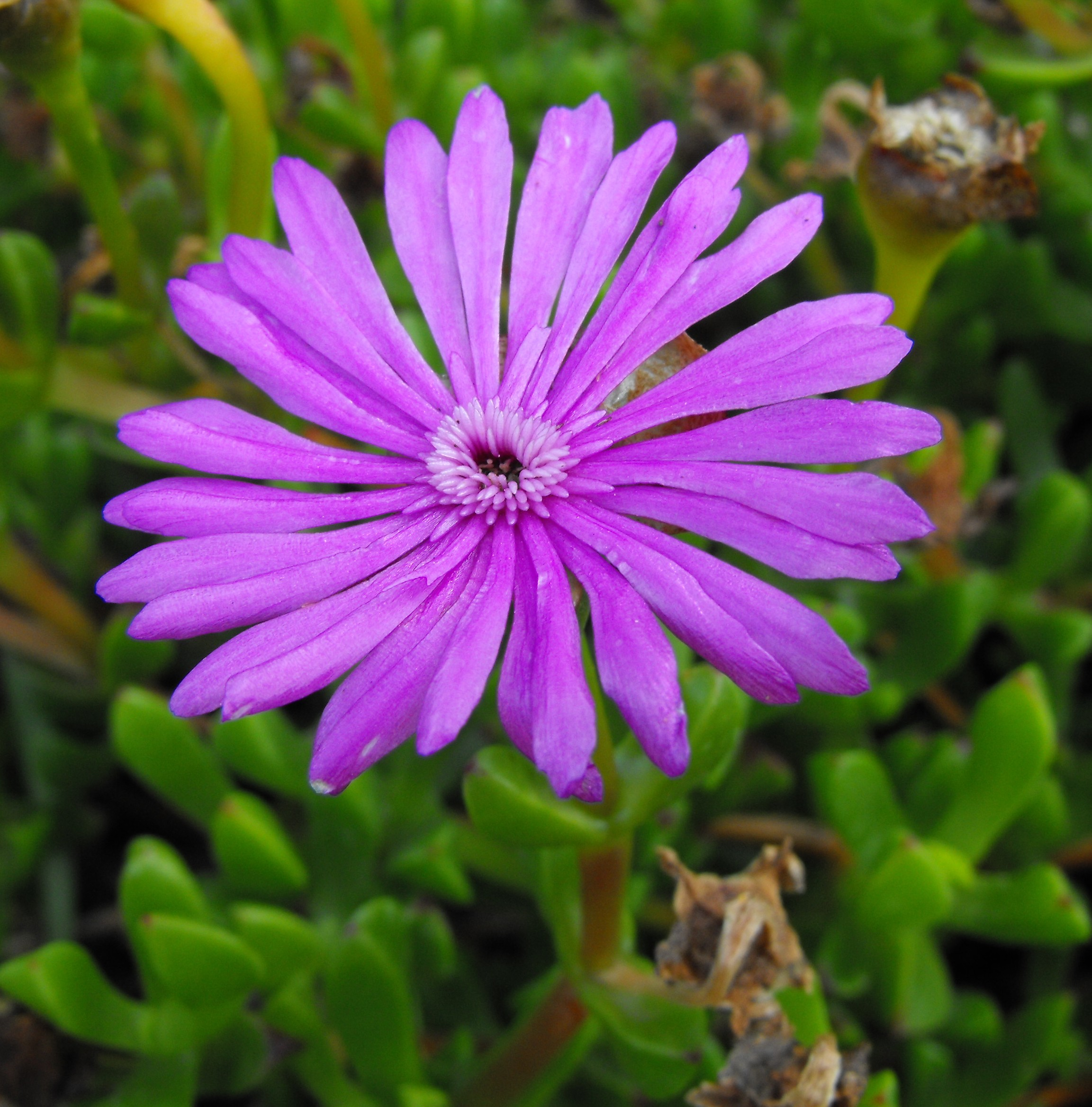 Erepsia heteropetala at the Huntington Library & Botanical Gardens in San Marino, California, USA. Identified by sign.